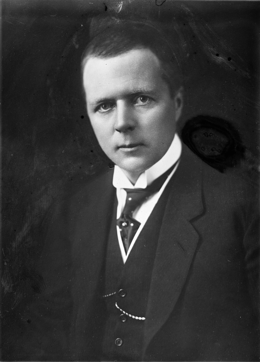 Johan Ludwig Mowinckel